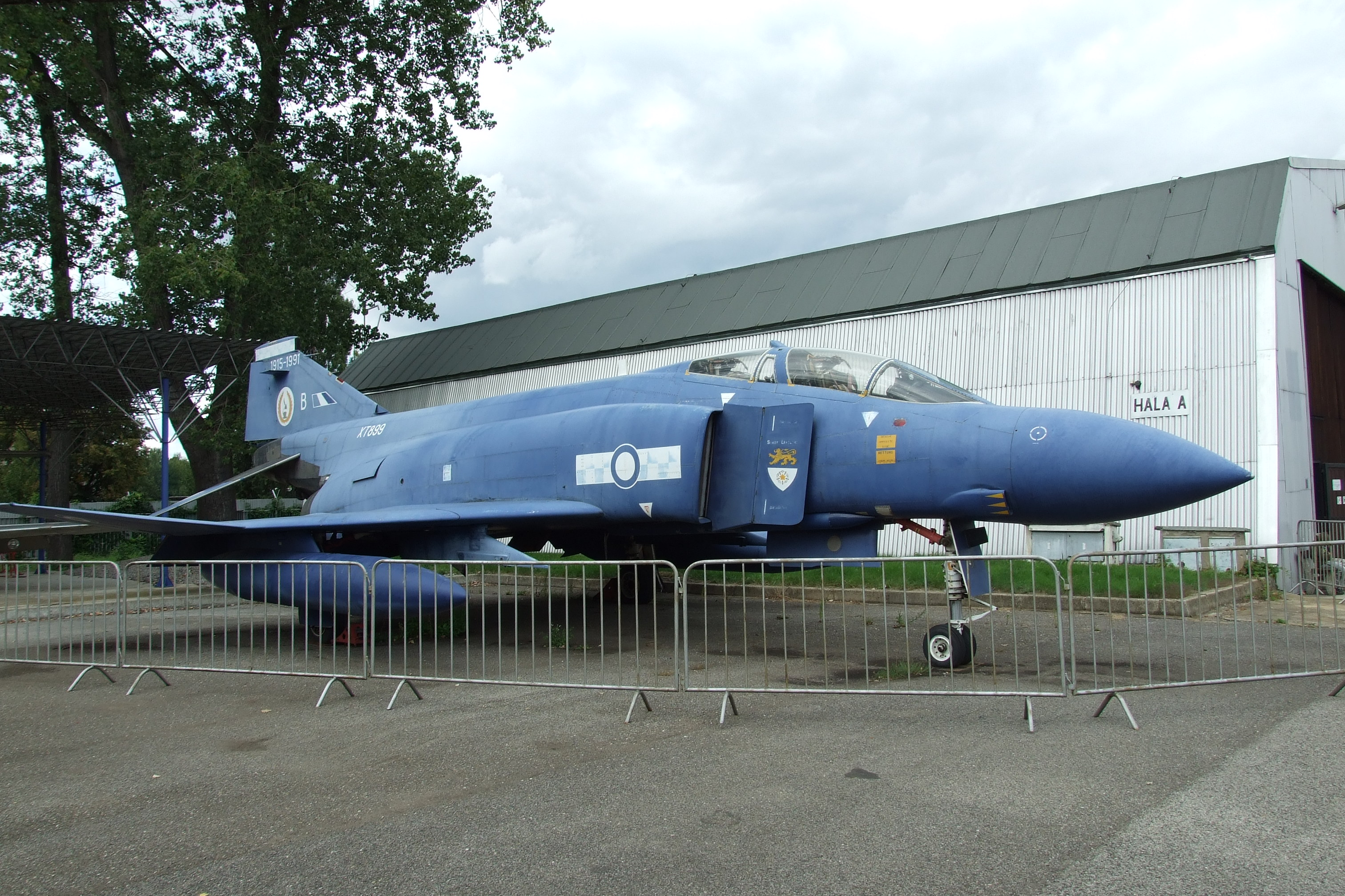 The former Royal Air Force McDonnell Douglas Phantom FGR.2 (F-4M) (s/n XT899/B) of No. 19 Squadron, RAF. painted blue overall on display at the Kbely museum (Czech Air Force Museum) at Prague, Czech Republic, on 17 May 2007. No. 19 Sqn. flew the Phantom FGR.2 from 1976 to 1992 and was mostly stationed at RAF Wildenrath, Germany. (Aircraft muzeum Kbely